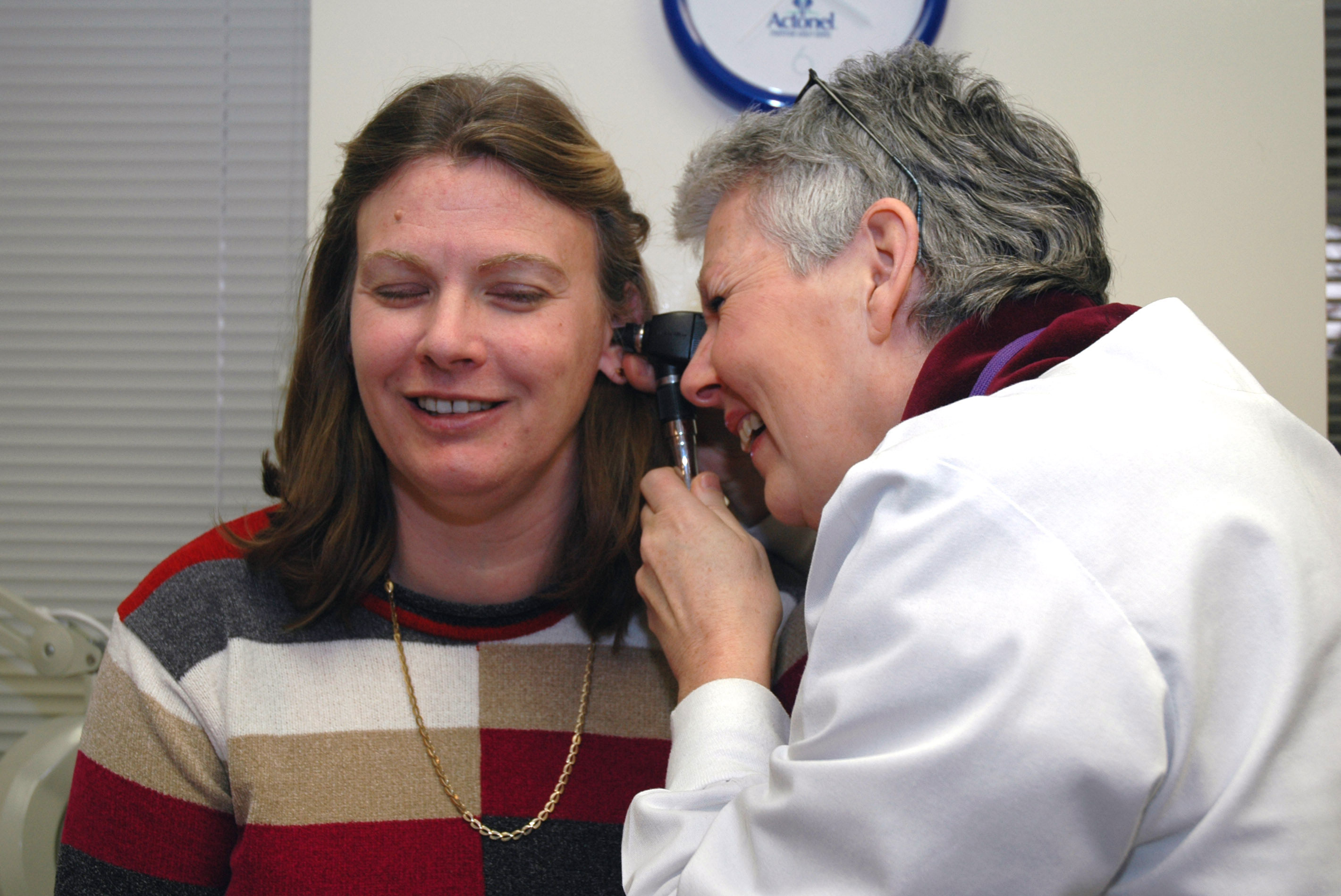 Title Doctor Examines Patient's Ear Description A Caucasian female doctor examines the ear canal of a Caucasian adult female patient. Topics/Categories People -- Adult People -- Health Professional and Patient Type Color, Photo Source National Cancer Institute